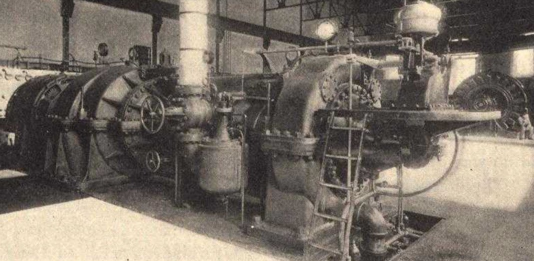 turbine electrical generator called "Mary-Ann"